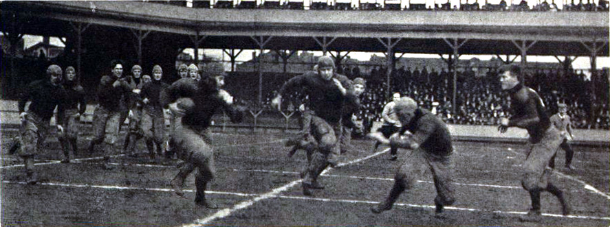 University of Pittsburgh, previously called Western University of Pennsylvania, upper campus in from 1890 to 1908 on Perrysville Avenue, North Side of Pittsburgh. Pitt vs West Virginia on Saturday November 7th, 1908 at Exposition Park. Pitt won 11-0. Captured from the 1910 Owl Yearbook.